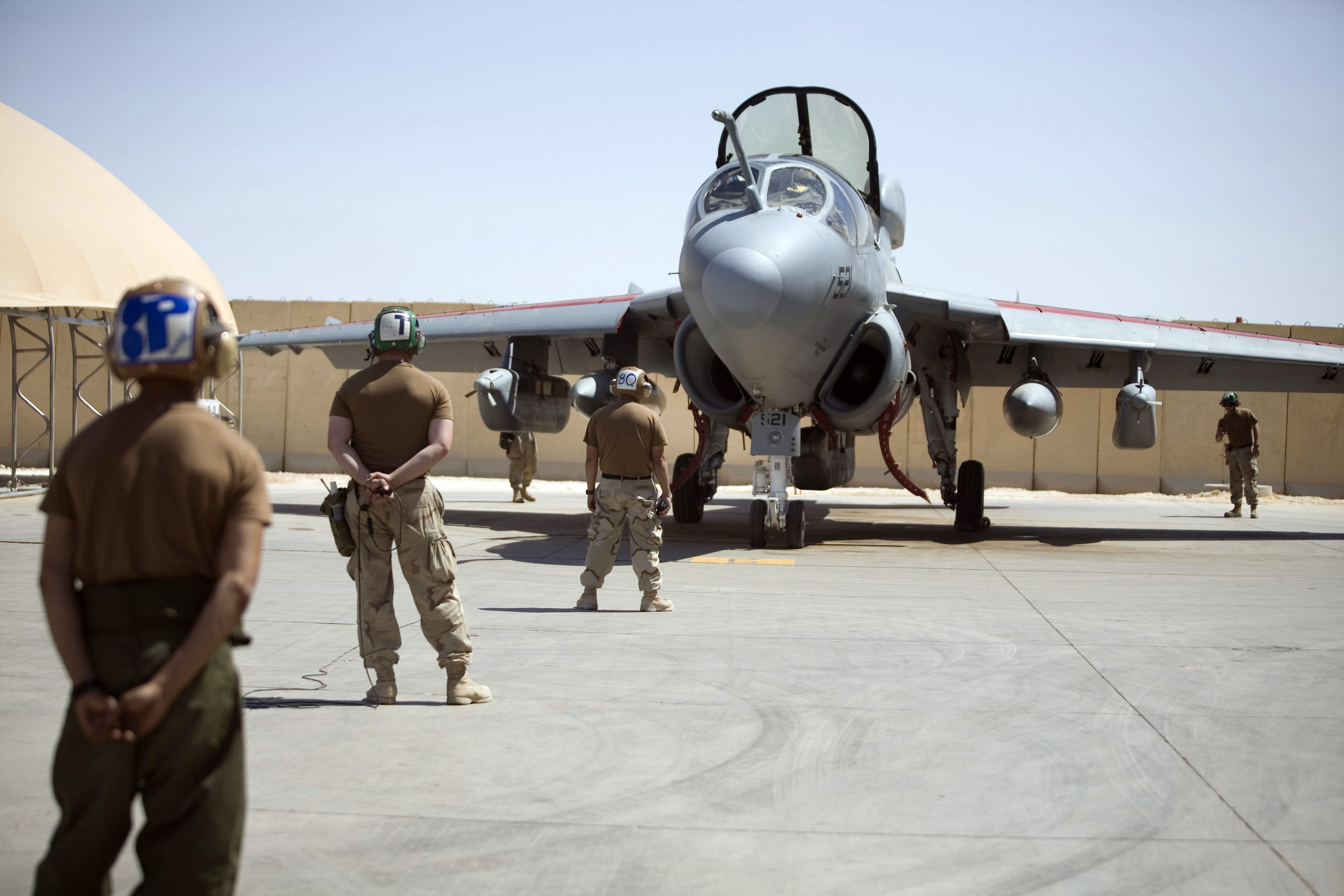 AL ASAD, Iraq (May 30, 2009) Sailors from various flight line sections conduct a launch evolution for an EA-6B Prowler assigned to Electronic Attack Squadron (VAQ) 142. During the launch evolution, all flight line sections of the squadron are involved in preparing an aircraft for take off. VAQ-142 is deployed as part of Multi National Forces-West supporting Operation Iraqi Freedom. (U.S. Marine Corps photo by Lance Cpl. Victor F. Cano/Released)